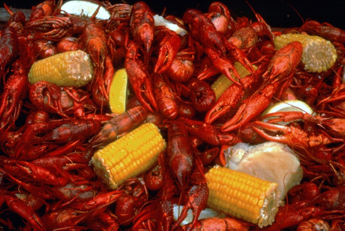 Cajun Style Crawfish Boils are a large part of Hayes, Louisiana's Culture.